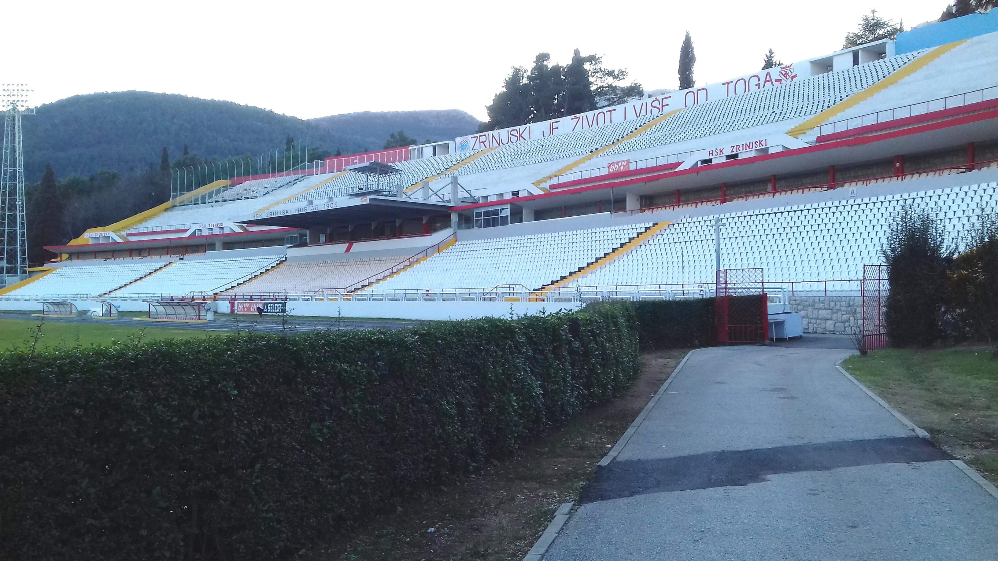 HŠK Zrinjski Mostar Stadium, Western Stand. This Image is from 2020 Srpski (latinica): Stadion HŠK Zrinjski Mostar, prikaz zapadne tribine, slikano 2020.